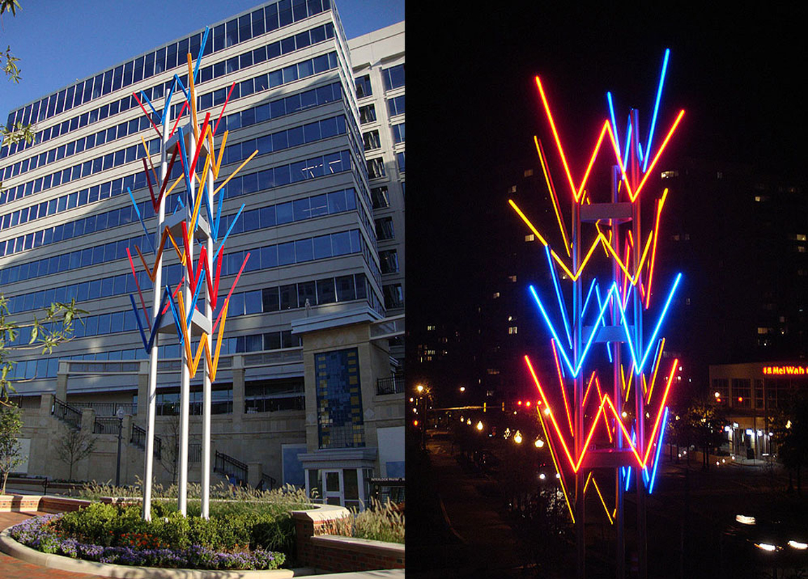 WWW-Tower, Wisconsin Place, Bethesda, MD/DC, designed by Athena Tacha, animated LEDs, 2001-09, in collaboration with Art Display Co. of Washington, and Arrowstreet Inc. & CRJA of Boston (Photos Athena Tacha and Richard Spear)